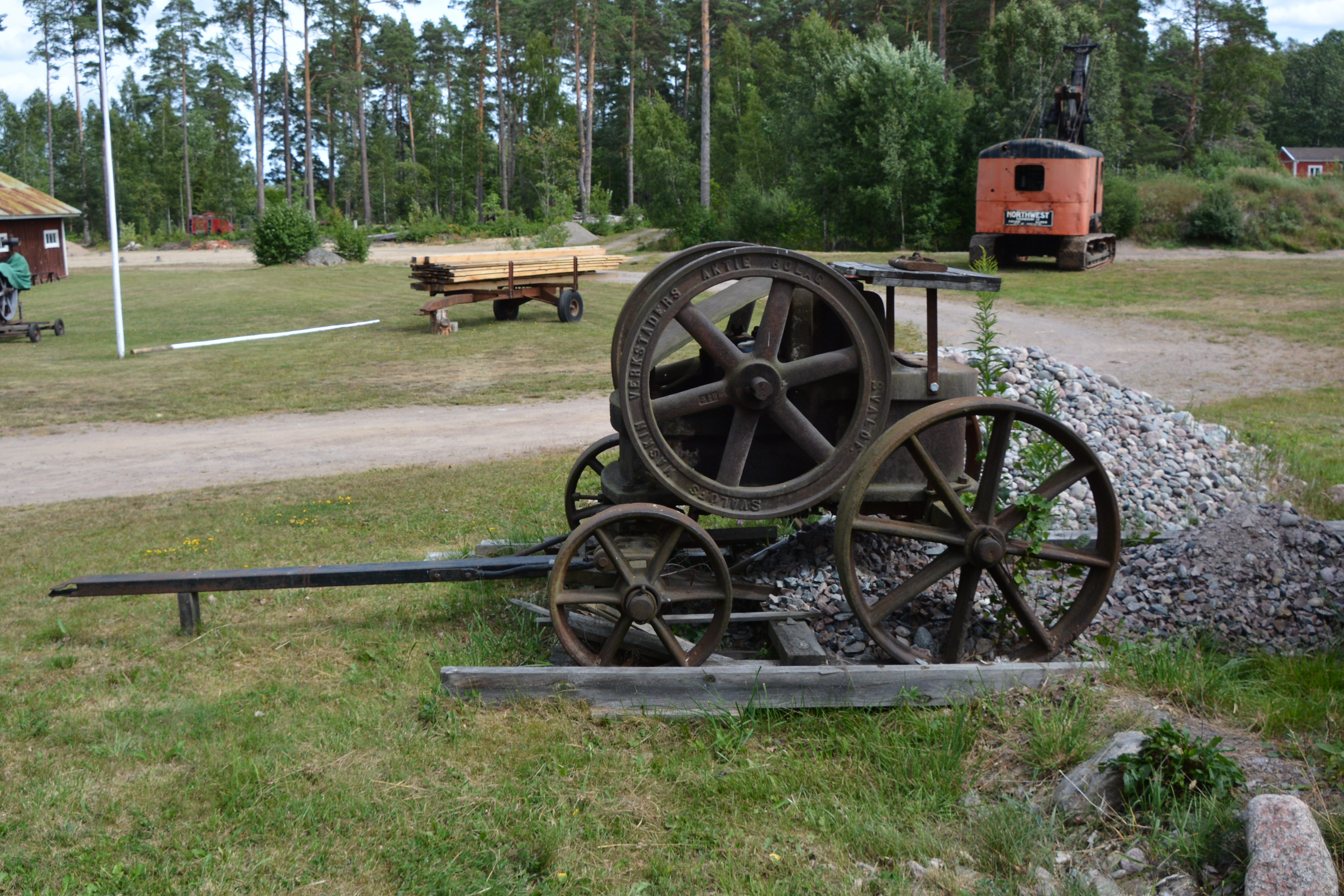 Mobil stenkross från Svalöfs Maskin Verkstäder AB, fotograferad i Målilla-Gårdveda hembygdspark 2017